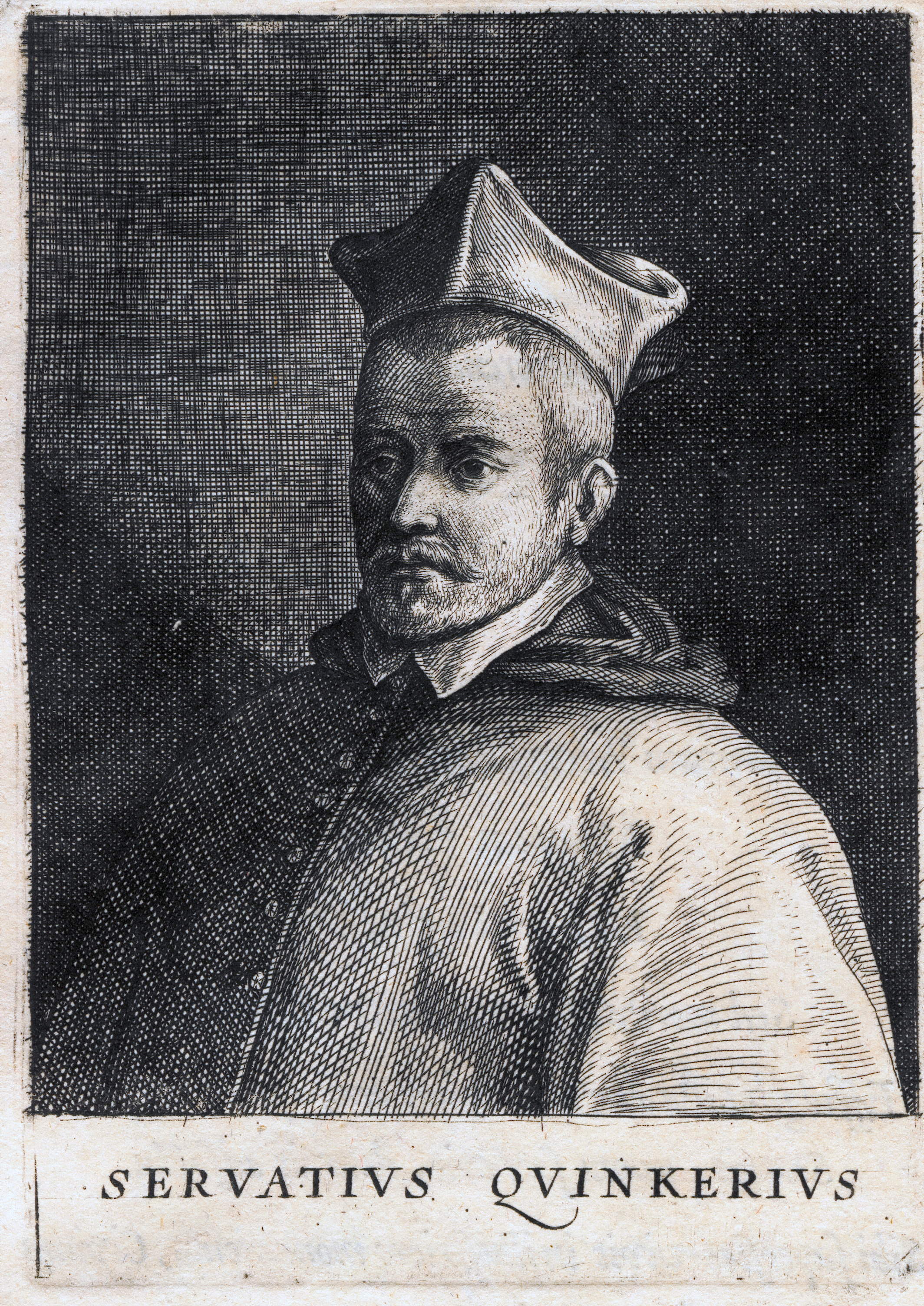 Servaas de Quinckere (Servatius Quinckerius), 7th bishop of Bruges (Belgium). Etching from: A. Sanderus, Flandria Illustrata, 1641-1644.